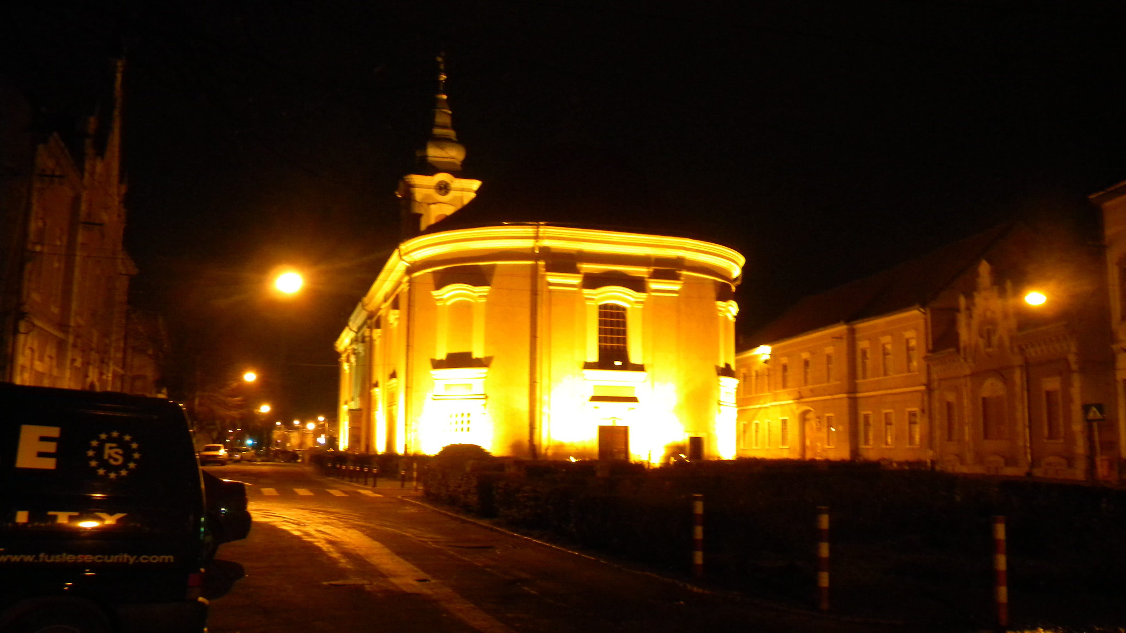 Chains church